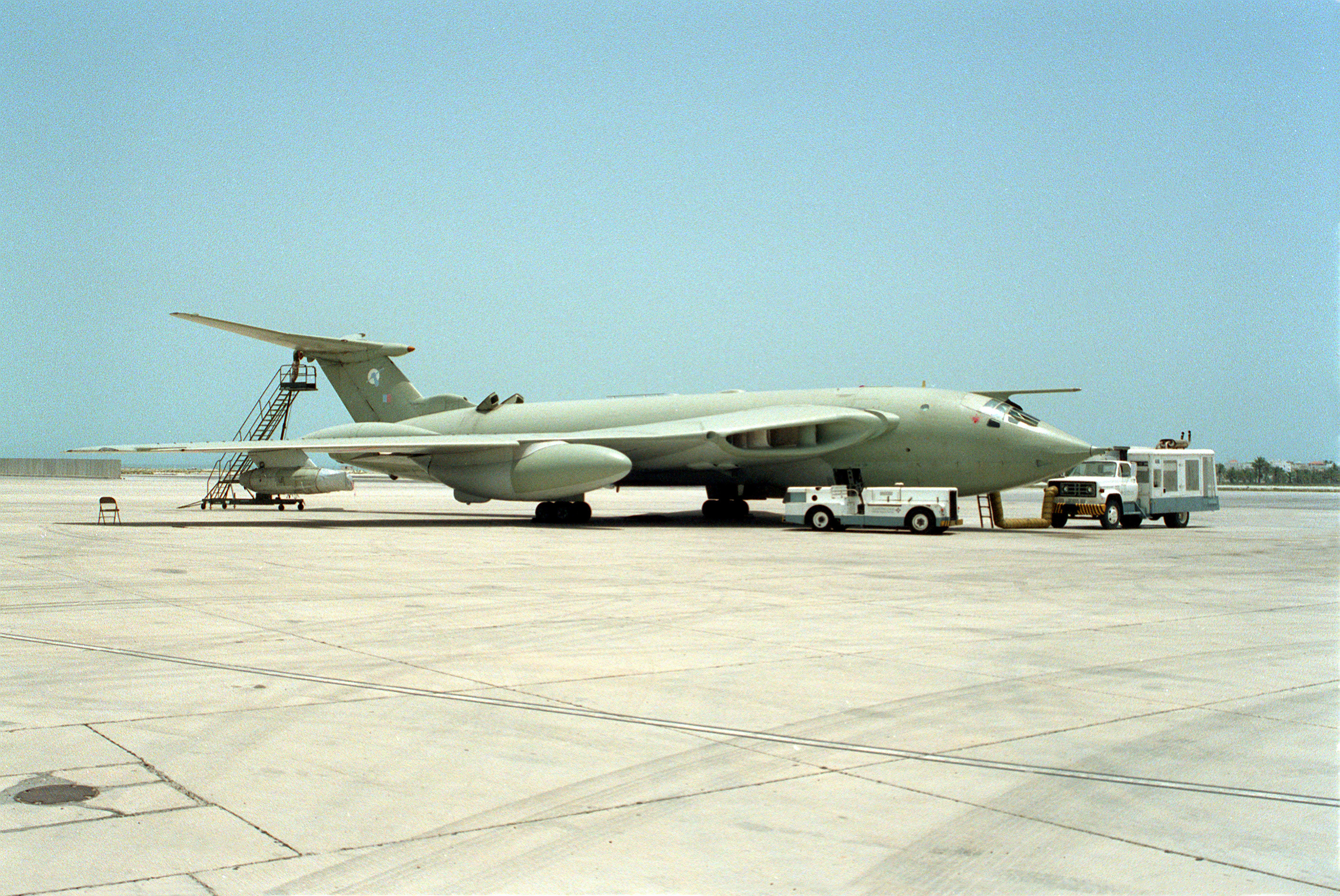 A right side view of a British Royal Air Force Victor aircraft - Handley Page H.P.80 - being serviced on a ramp.